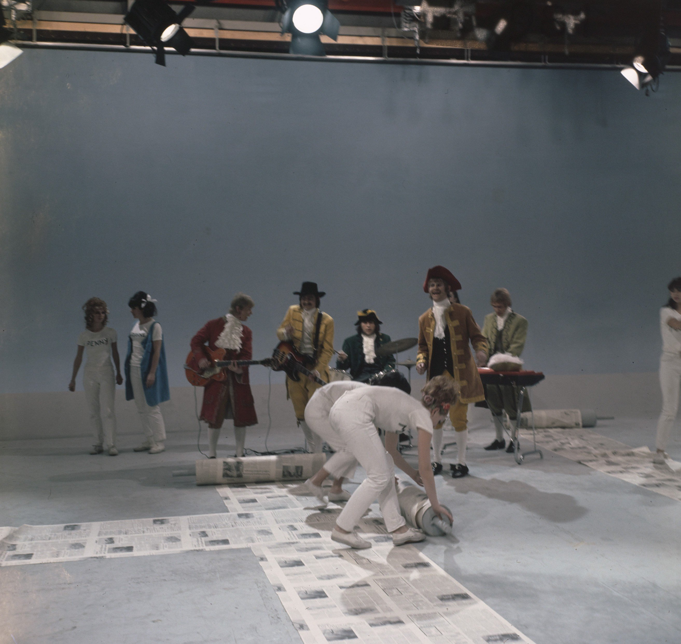 Pop group Honest men in Dutch TV-show Moef Ga Ga (=Crazy Move) with the Beat Girls, incl. Penney (then still Penny) de Jager talking to Diane South (Dianne) -far left. 23 Jan. 1968